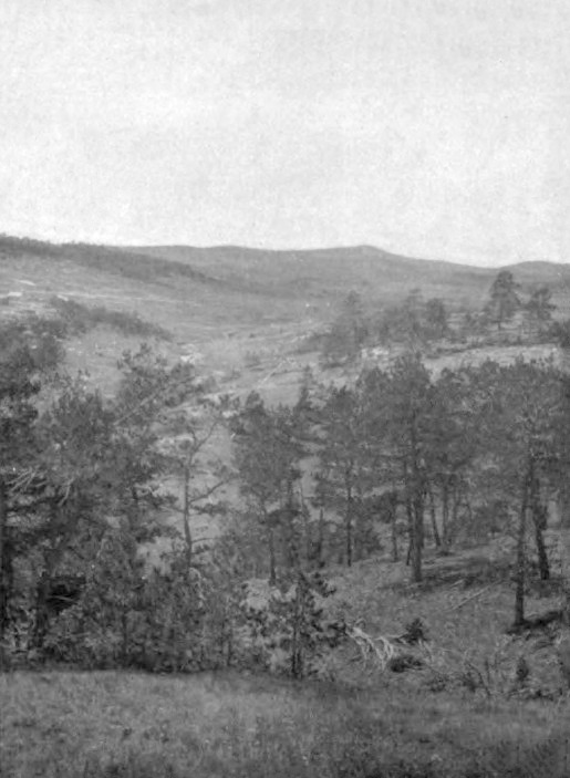 Sapphire Coulee, Yogo District, Montana. A hollow cut in limestone. The sapphire-bearing dike, which is on the right side of the view, runs in the direction of the gulch.